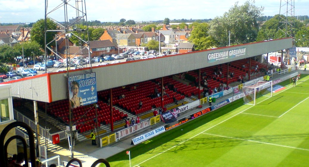 The Town End of the County Ground taken on a matchday (Swindon v Rochdale, August 12th 2006). Author: Myself